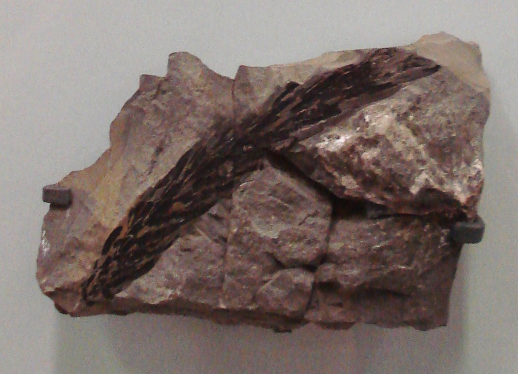 fossil of voltzia